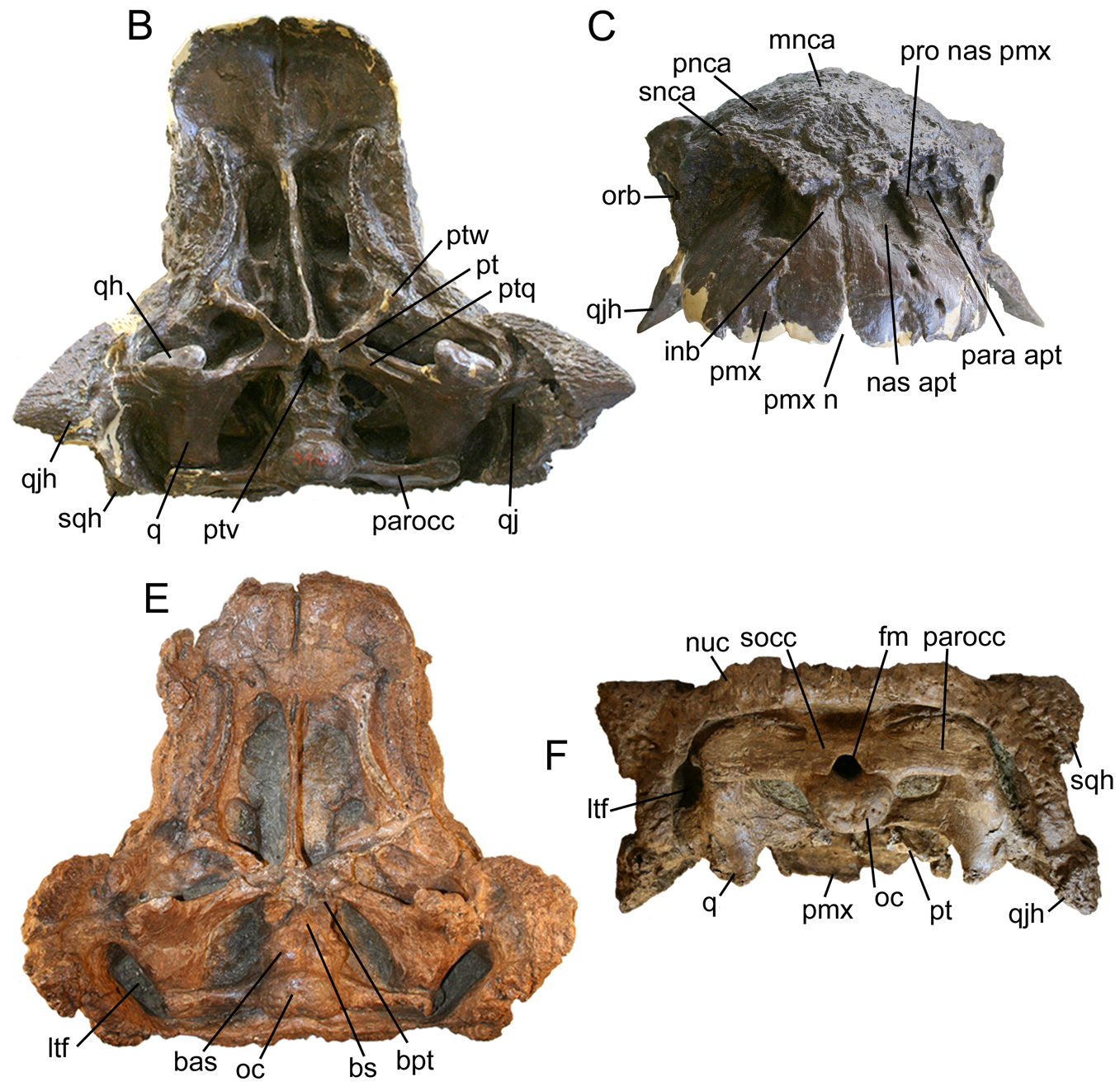 AMNH 5405 in B) ventral and C) anterior views. ROM 1930 in E) ventral and F) posterior views.